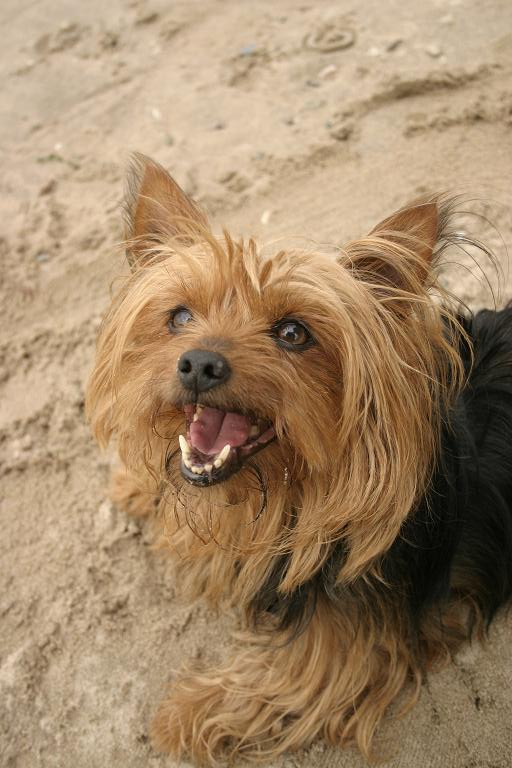 Dargestellt wird ein Yorkshire Terrier, der Hund ist mein eigener, fotografiert durch eigene Cam./Shown Dog is a Yorkshire Terrier, the dog is mine, photo was made by own cam./El Perro en la foto es un yorkshire terrier, la perra es mia, la foto fue hecha con propia camera.